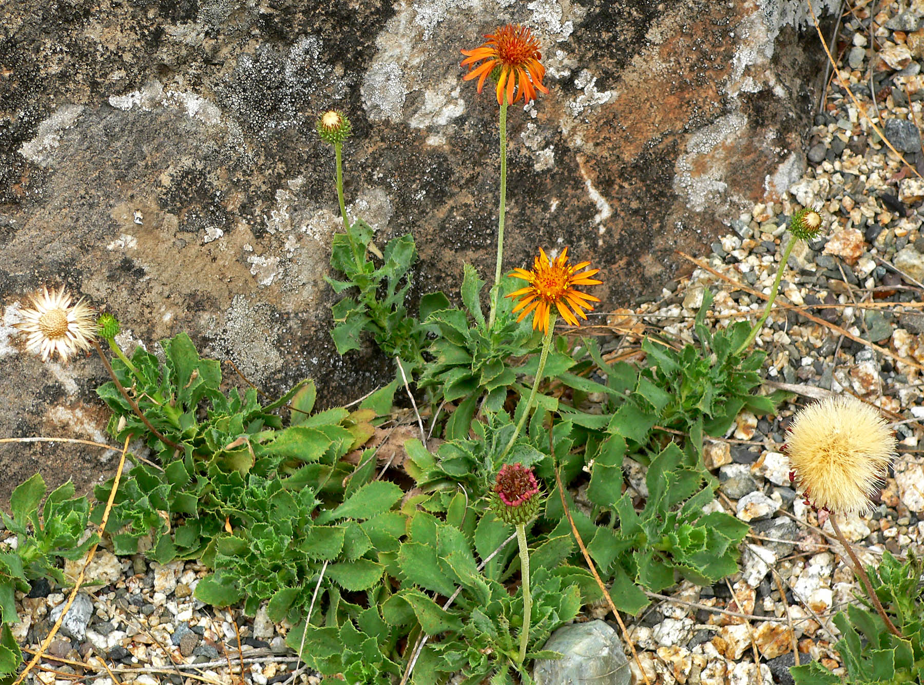 Photo of Haplopappus foliosus at the University of California Botanical Garden